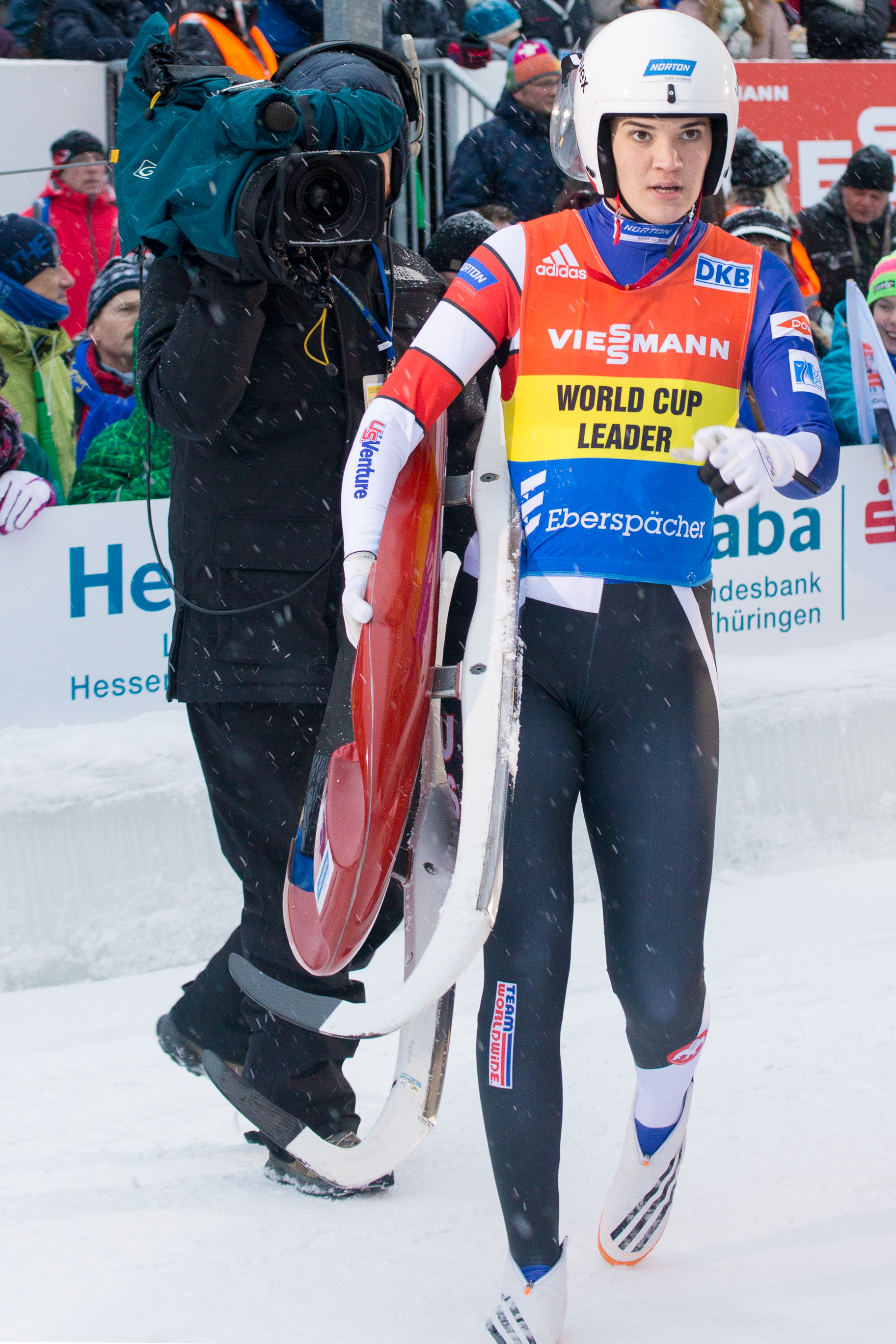 Luge world cup Oberhof 2016-01-16